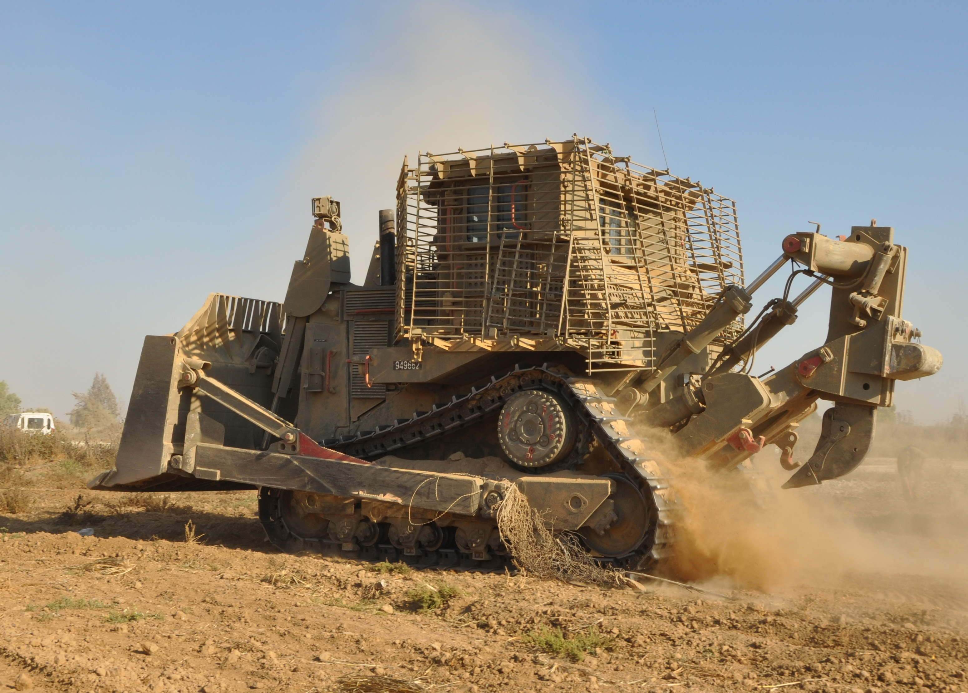 Armored IDF Caterpillar D9 bulldozer operating at the Gazan border during Operation Protective Edge